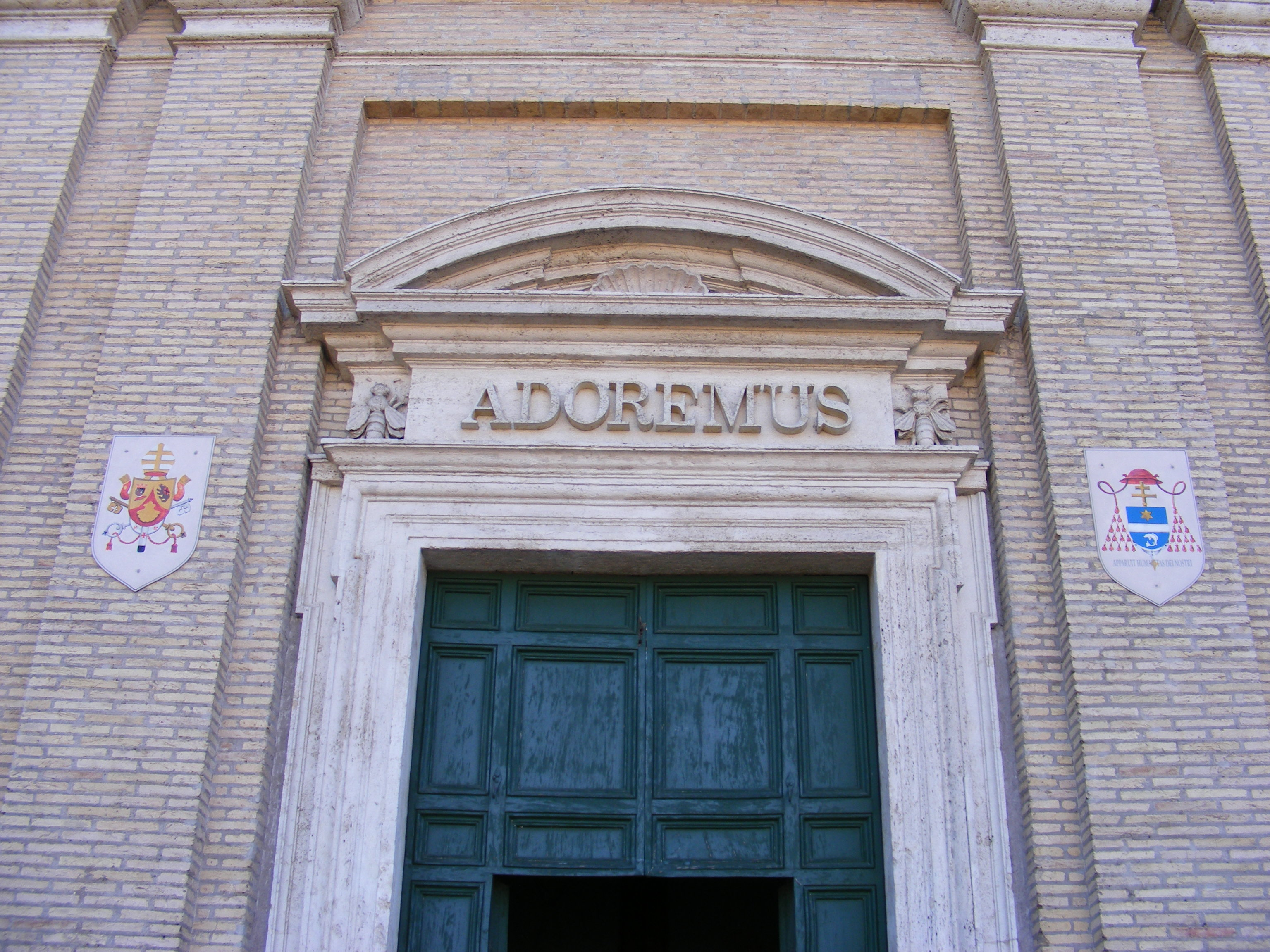 Main entrance of the basilica Sant'Anastasia